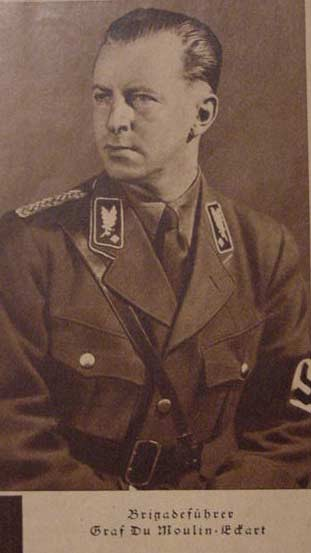 Ehemaliger Chef des Secret Service der SA Graf Karl-Leon Du Moulin Eckart